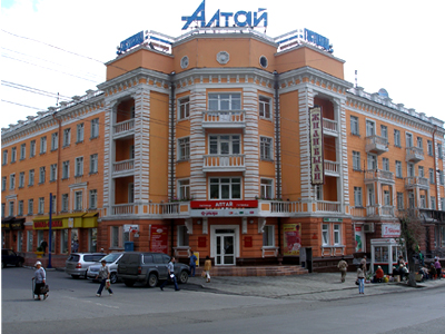 Hotel Altai (Barnaul)